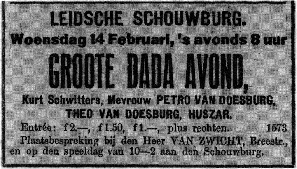 Anonymous. Advertisement for Grote Dada Avond [Grand Dada Night]. From Leidsche Courant (13 February 1923).